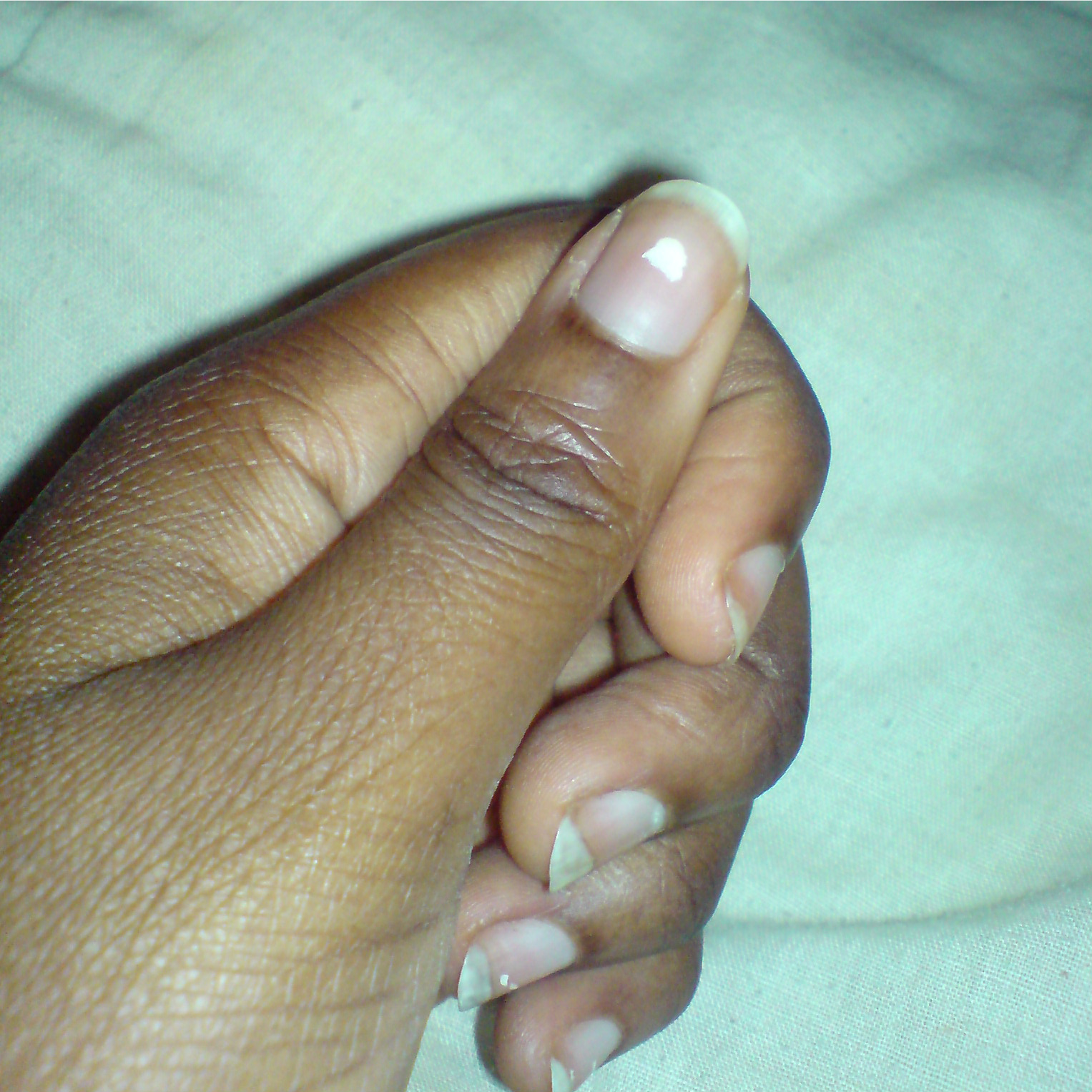 Example of leukonychia (white discolouration of nails) on a female of African descent.